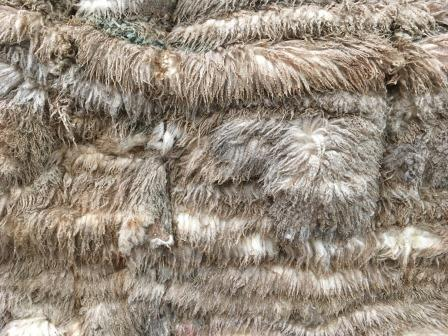 merino sheepskins are the best rawmaterial for bedoverlays